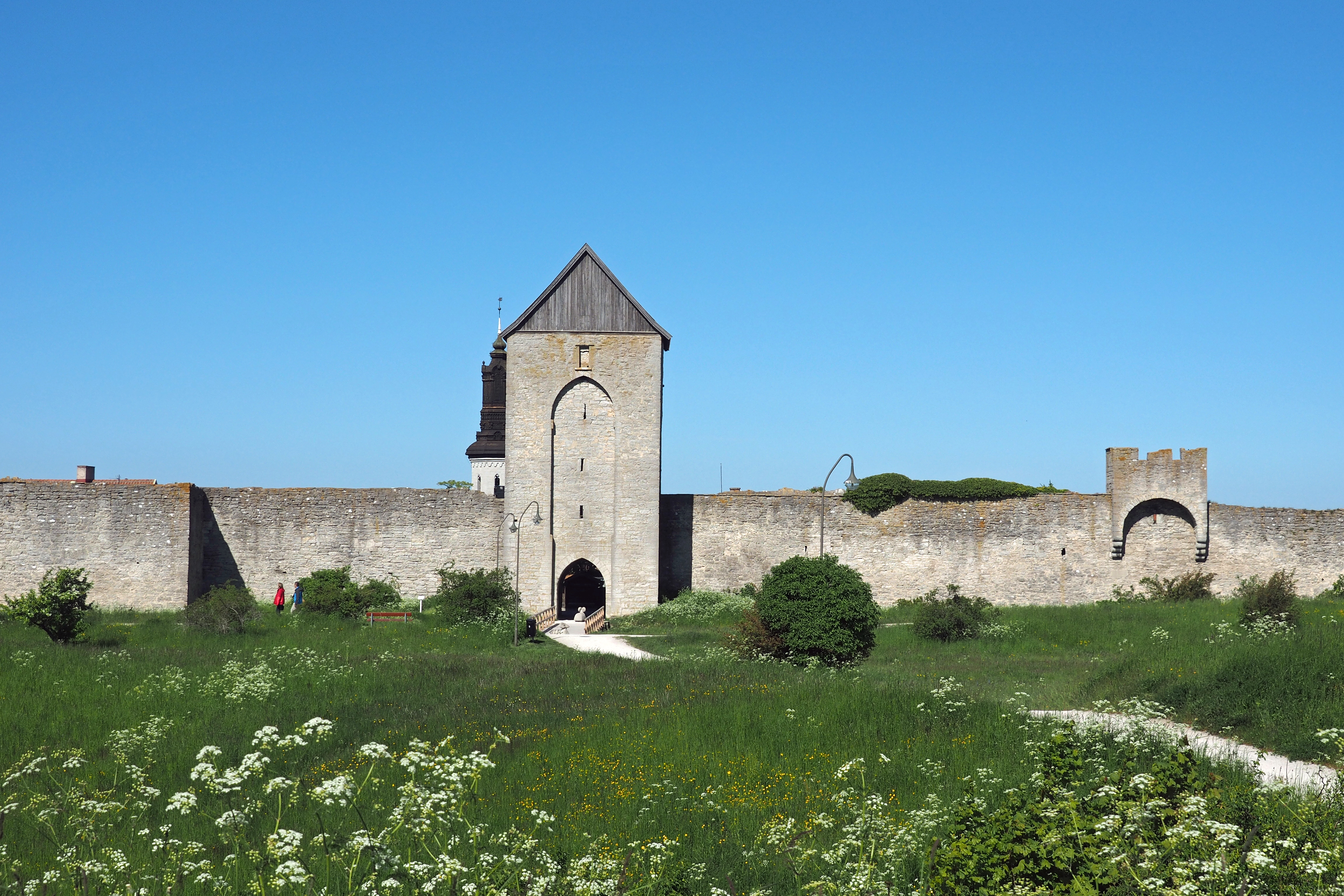 Dalmansporten in the Town Wall Visby